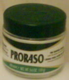 Proraso pre and aftershave